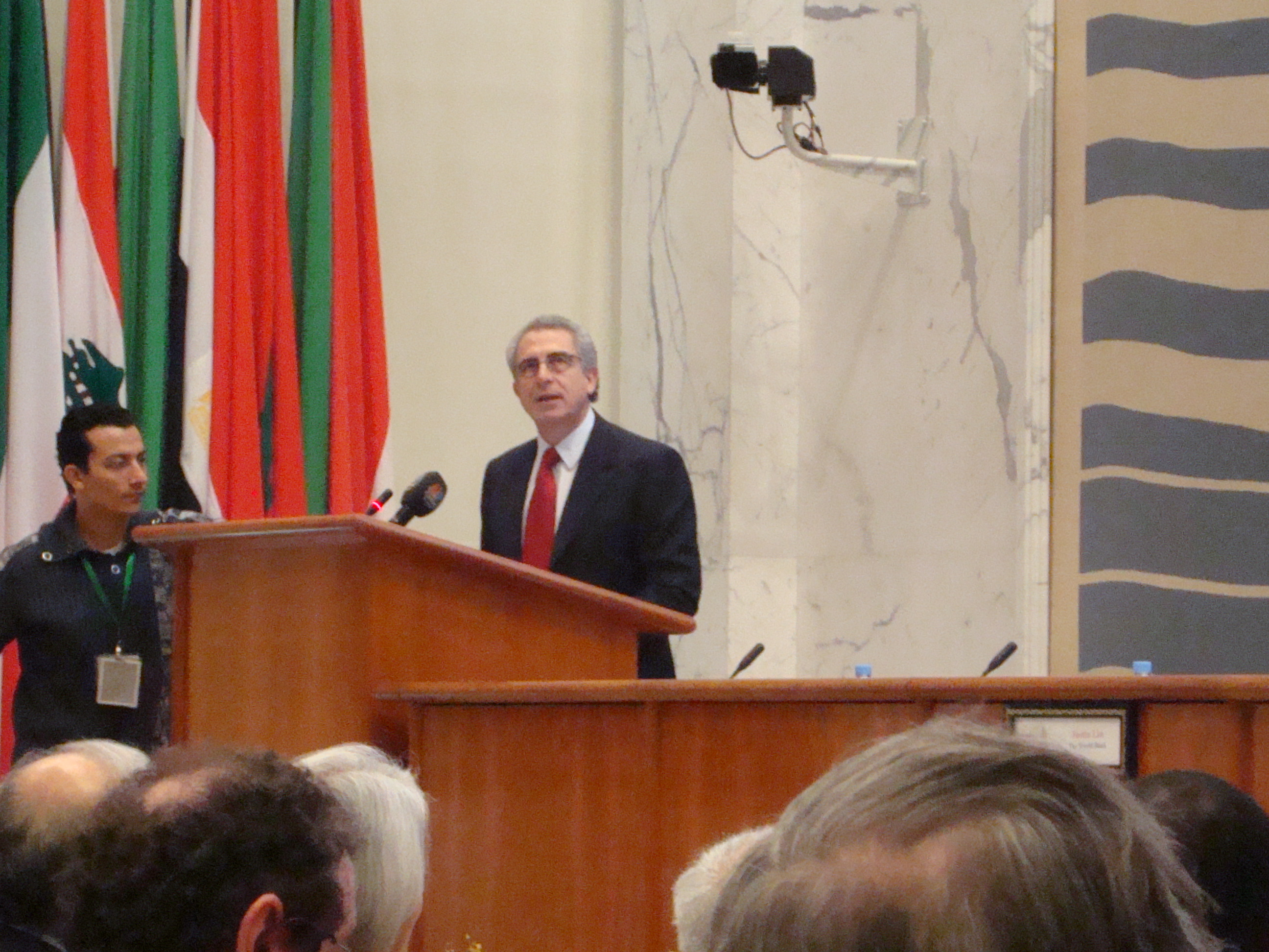 Mr. Ernesto Zedillo, Chair GDN Board of Directors, kicks off the conference.